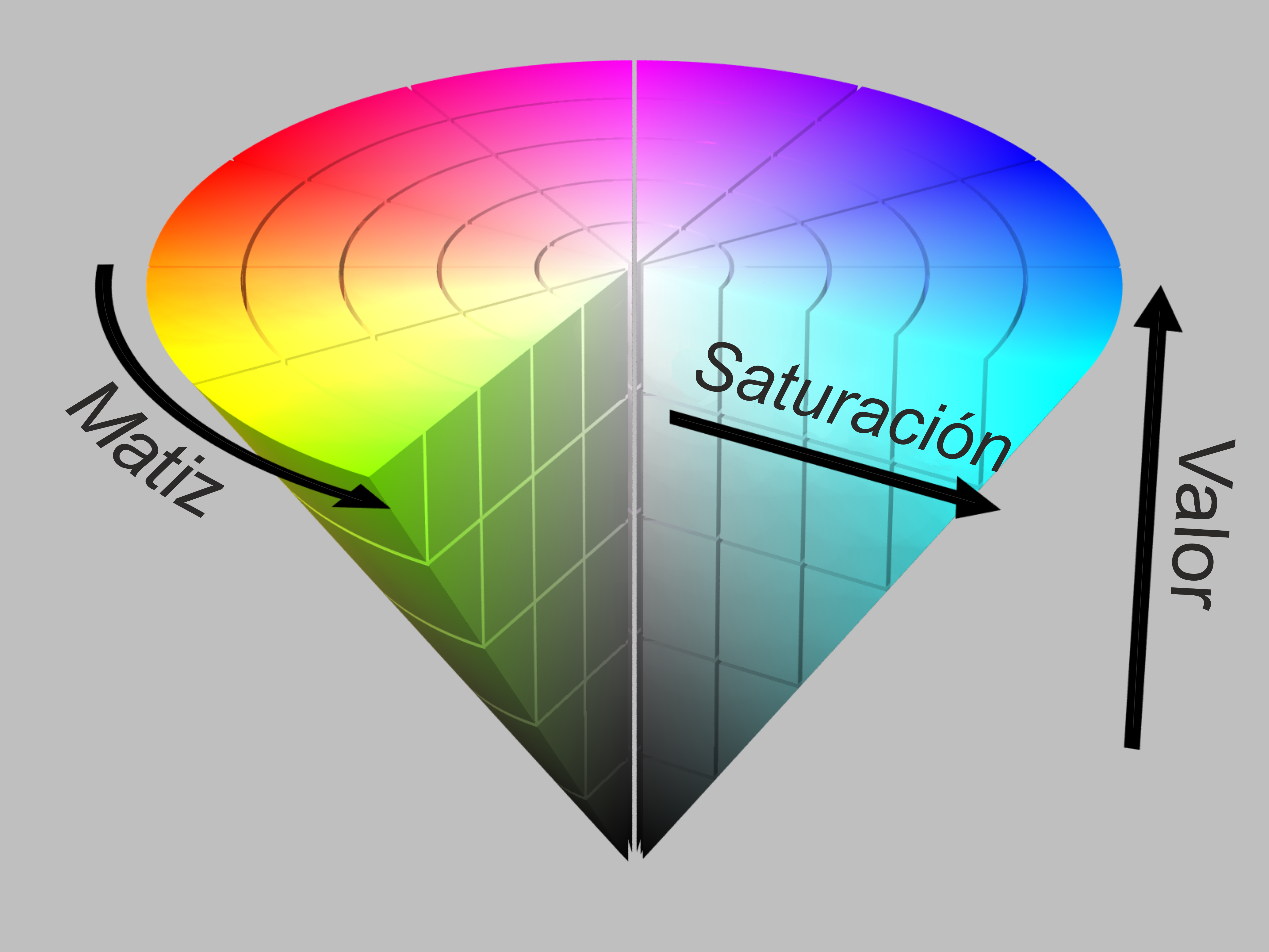 Cone of HSV color system (spanish)